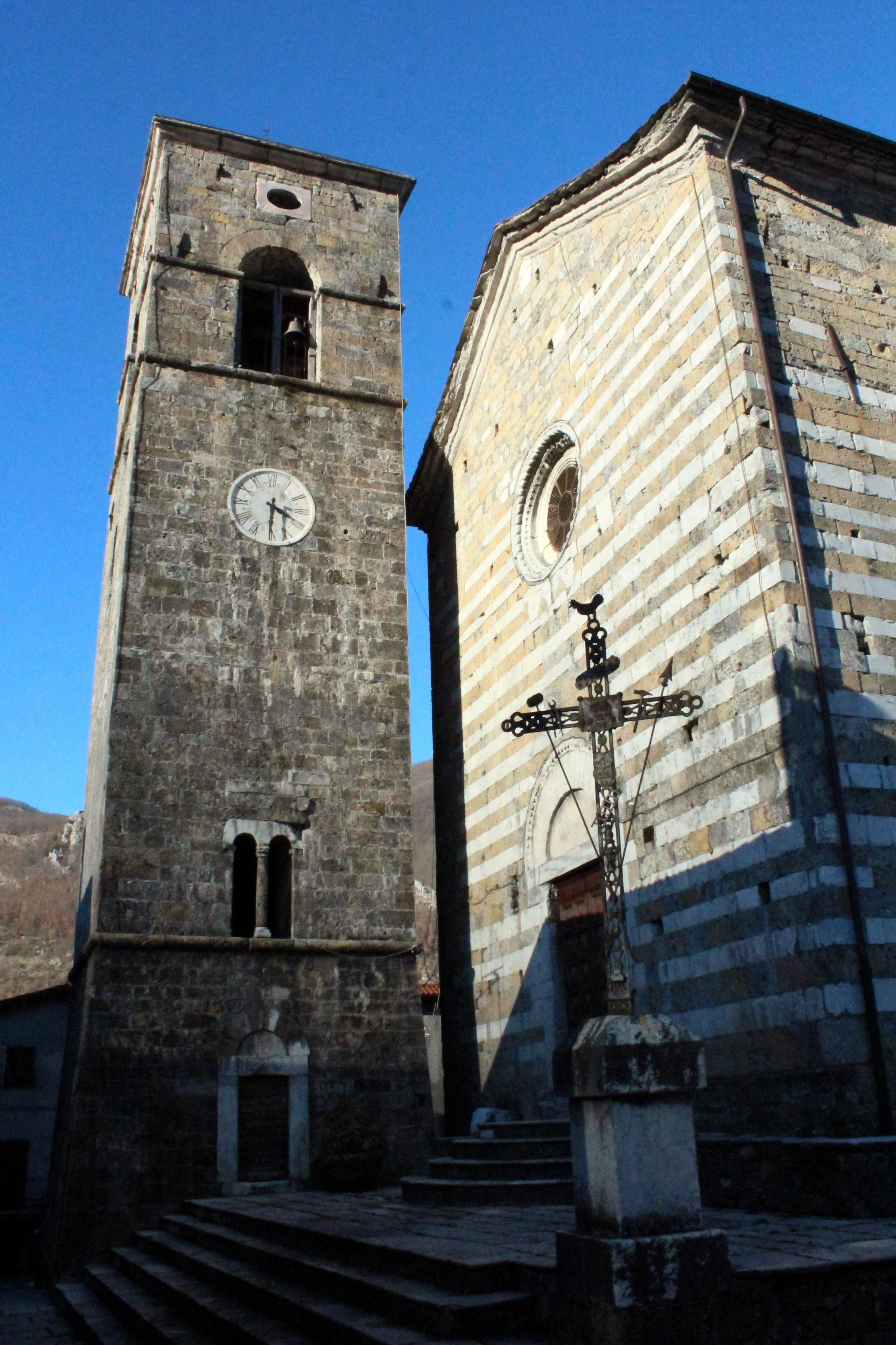 Church of San Regolo in the center of Vagli Sotto, Garfagnana, Province of Lucca, Tuscany, Italy